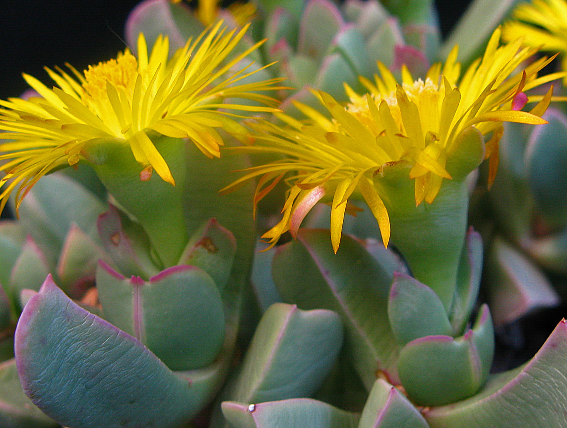 Machairophyllum brevifolium